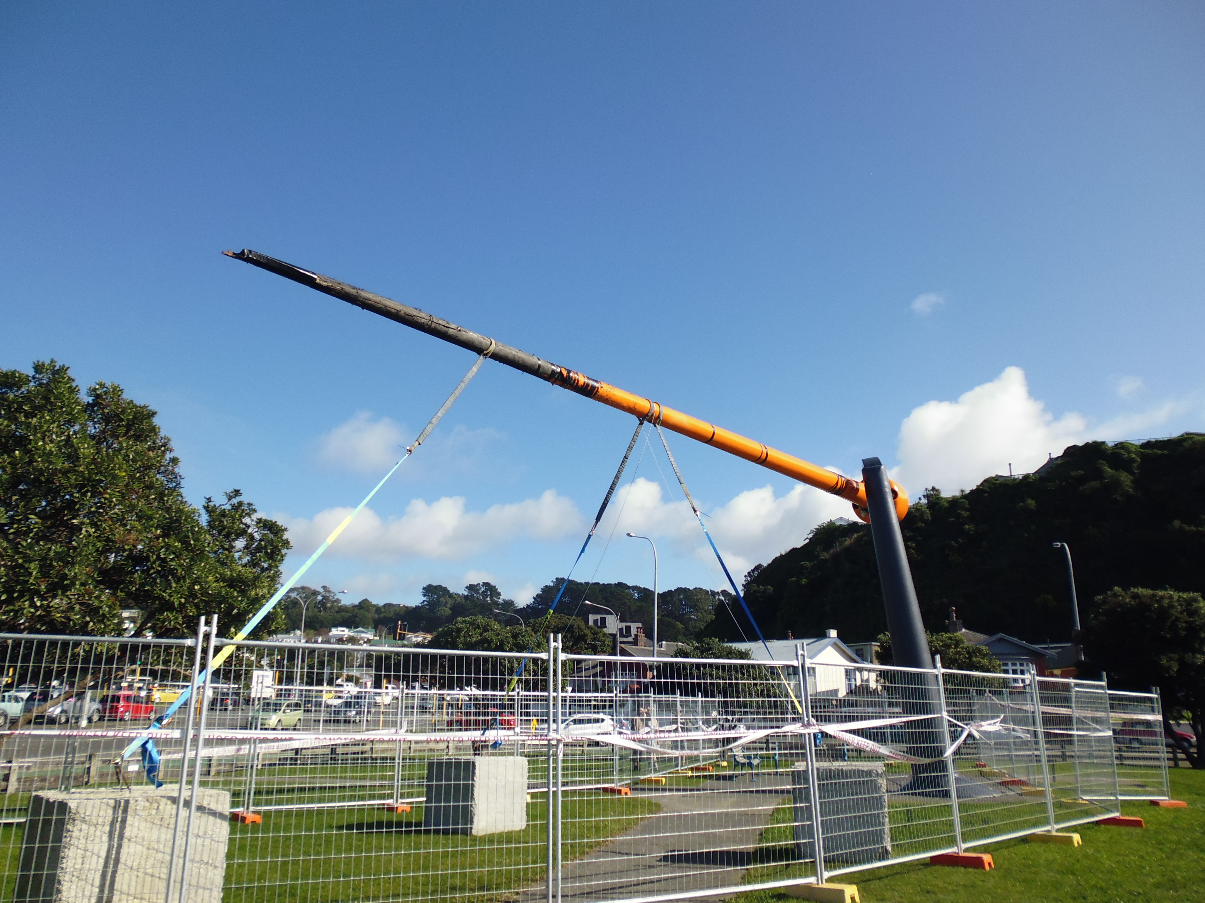 On Thursday 14 August 2014, the "Zephyrometer" sculpture near Wellington International Airport was struck and seriously damaged by lightning. Pictured is the sculpture a few days after the strike.